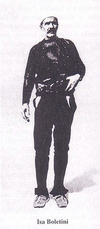 Hero of Albania